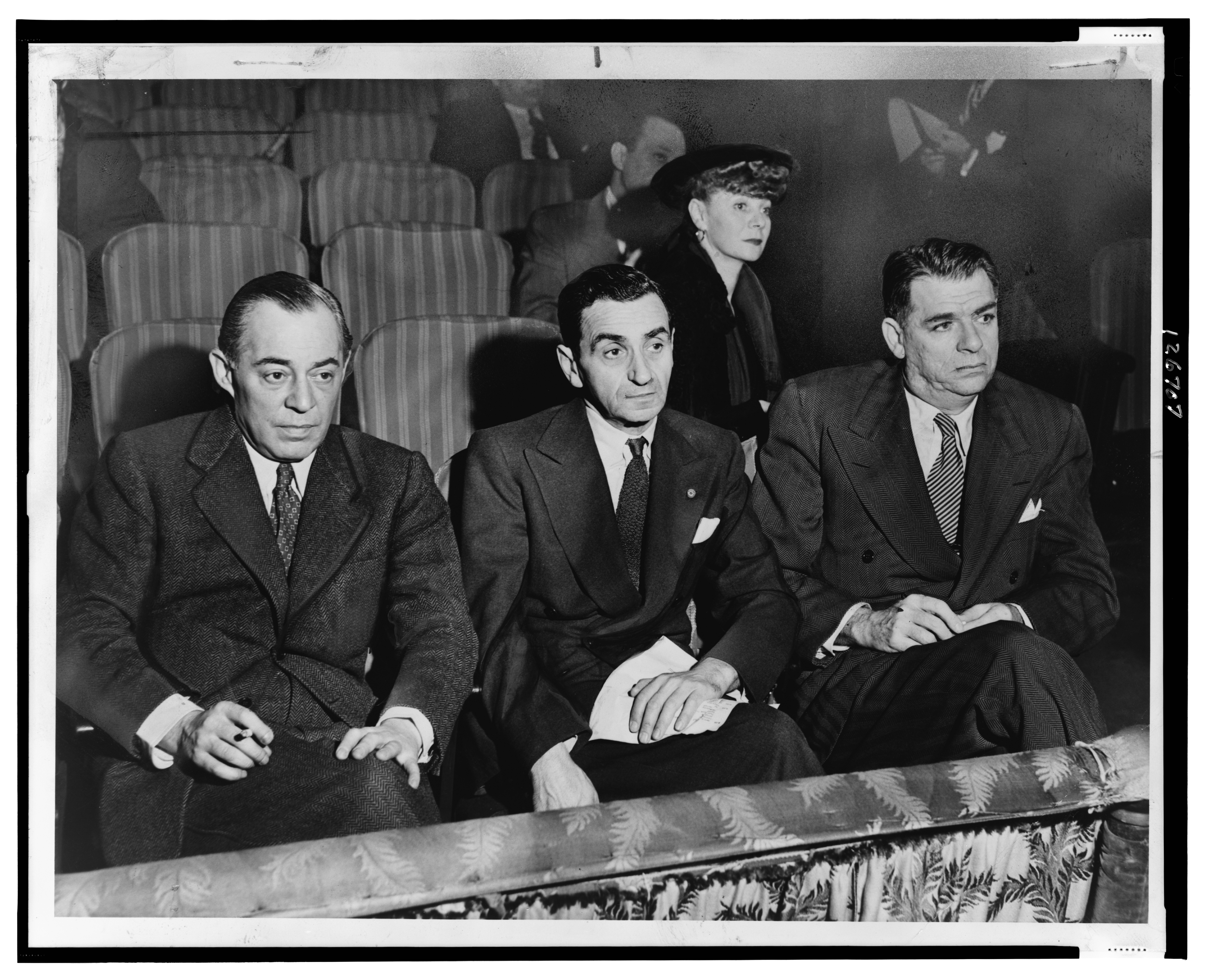 Irving Berlin, from a larger photo of him with Rodgers and Hammerstein and Helen Tamiris, watching auditions on stage of the St. James Theatre